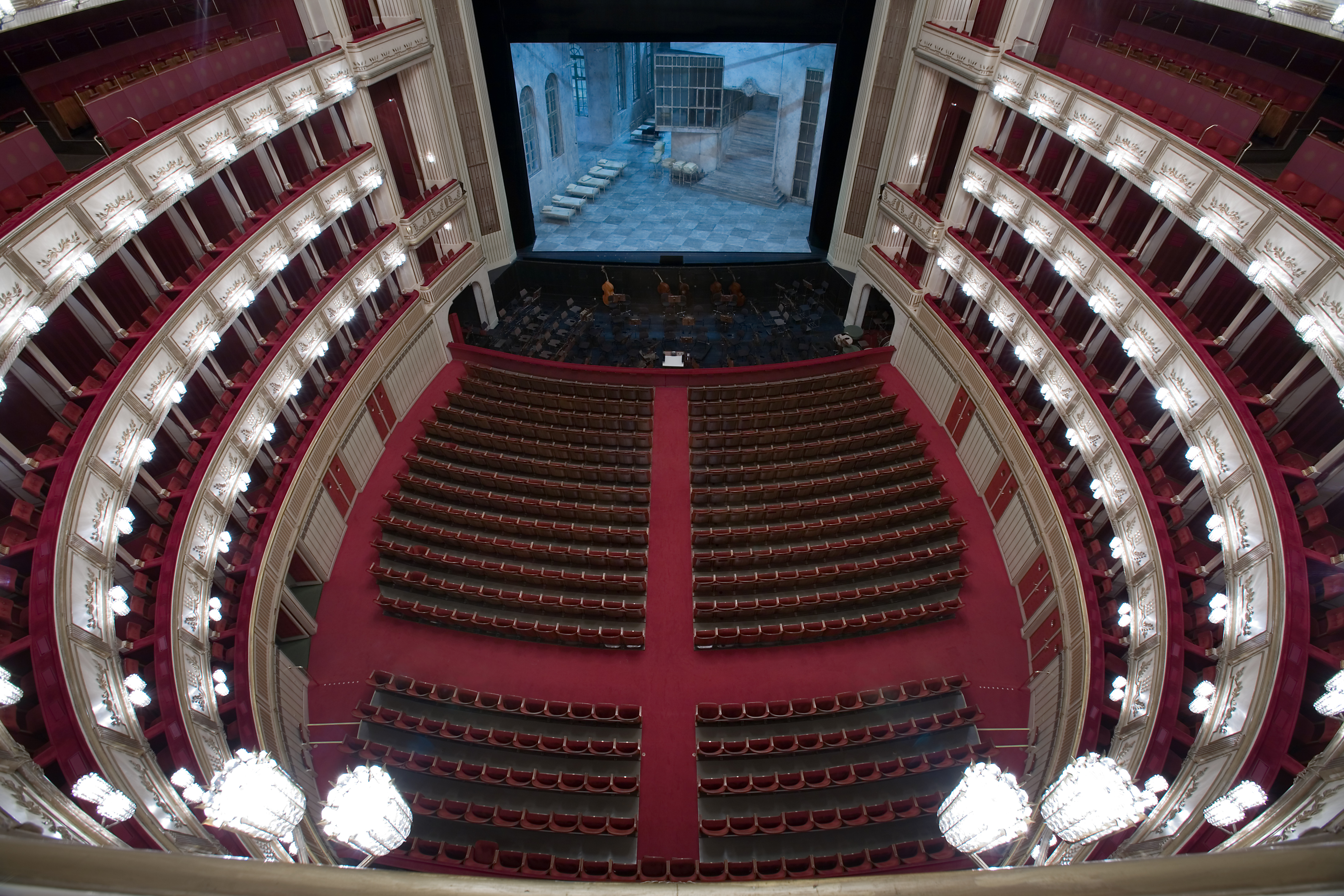 Vienna Opera main auditorium, Vienna, Austria